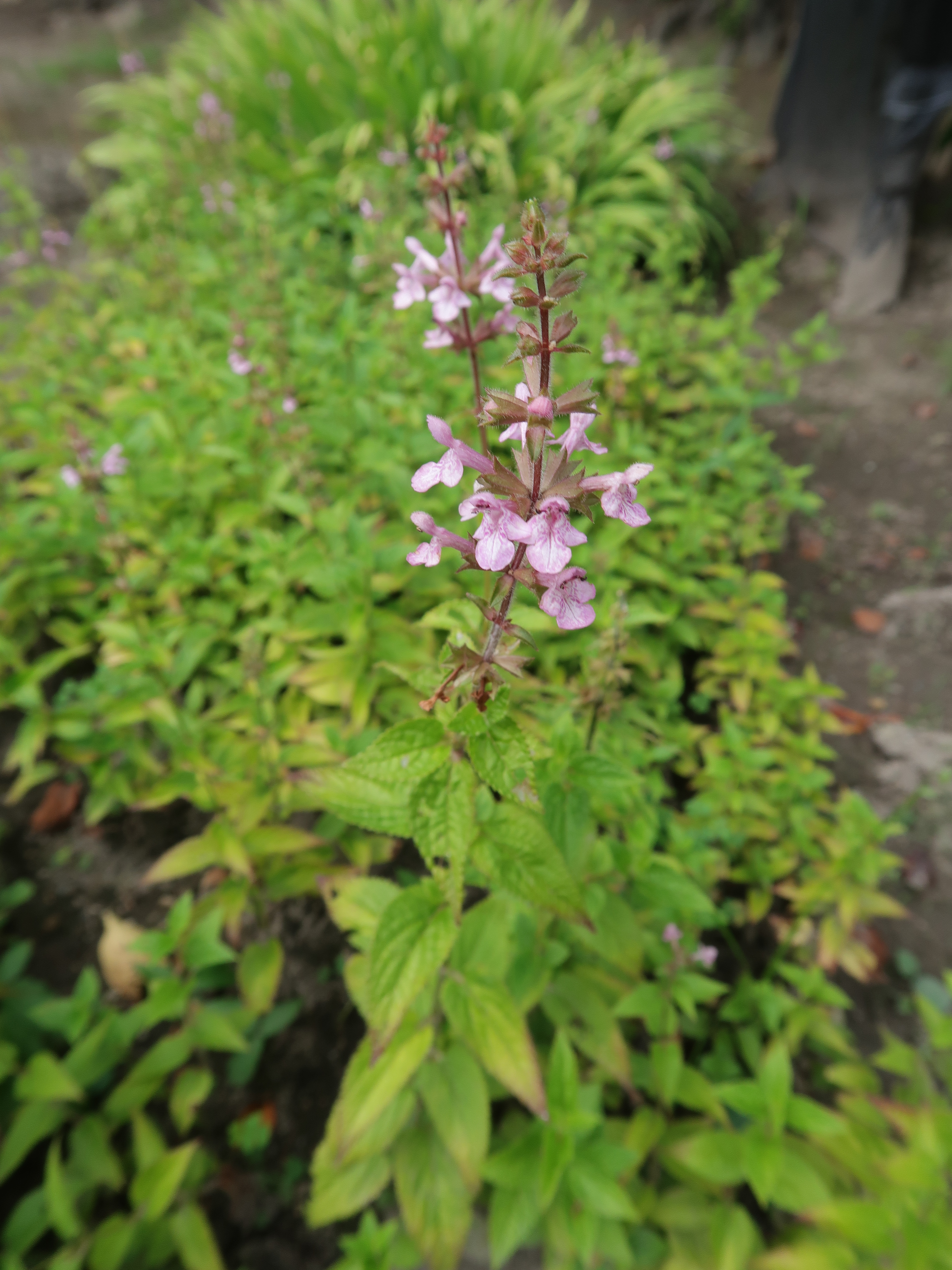 Stachys sieboldii, cultivated, Aizu Matsudaira's Royal Garden, Fukushima pref., Japan